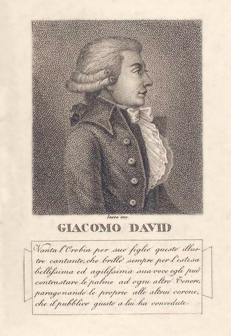 Portait of Giacomo David.